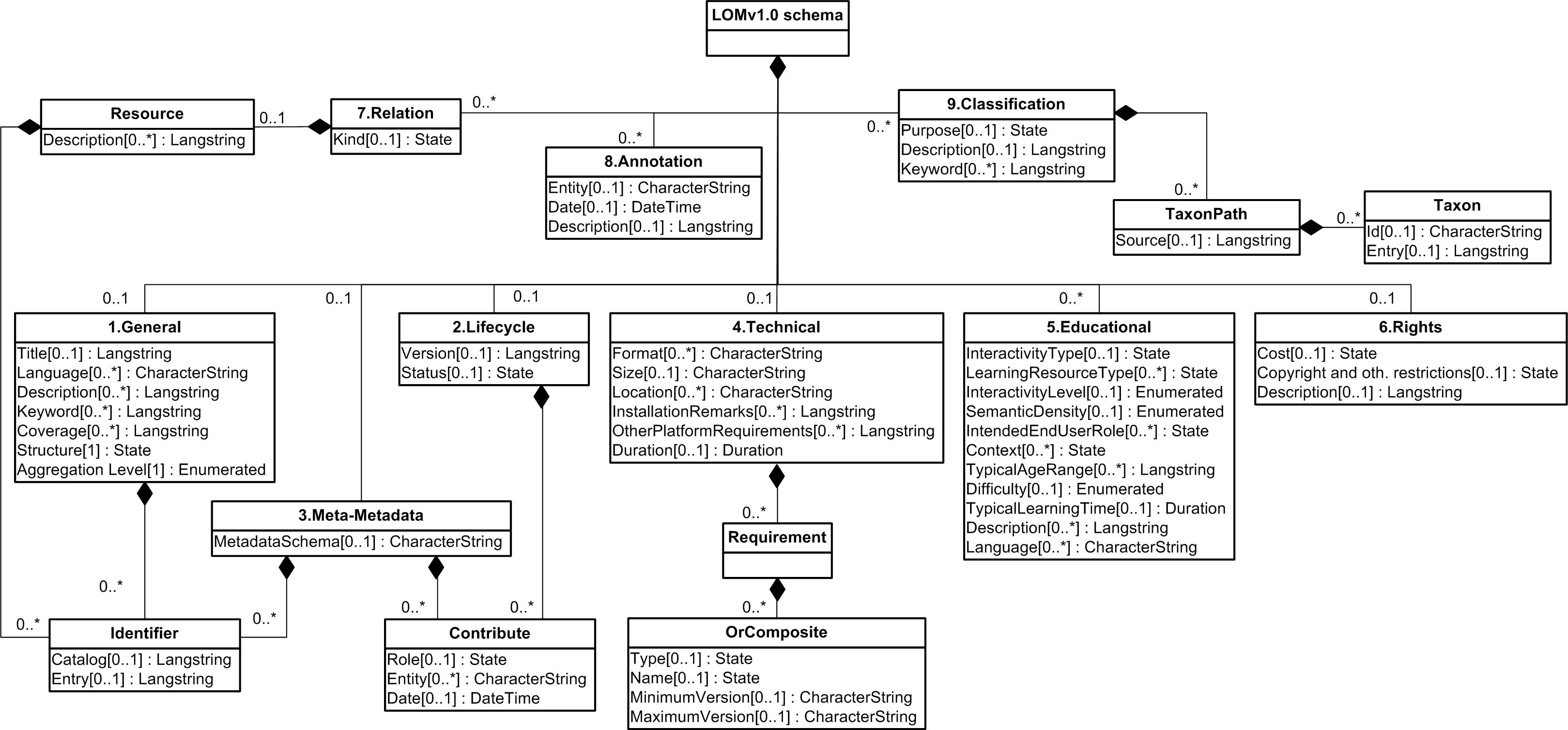 An UML diagram of IEEE1484.12.1 Learning Object Metadata (LOM) base schema.